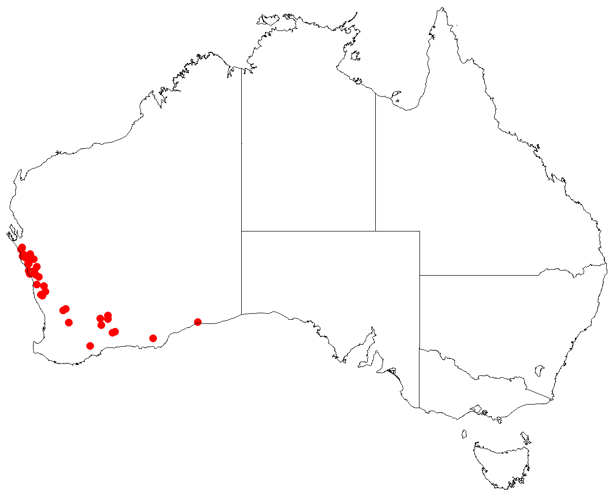 Tetraria microcarpa collections data download 3 August 2018 from AVH